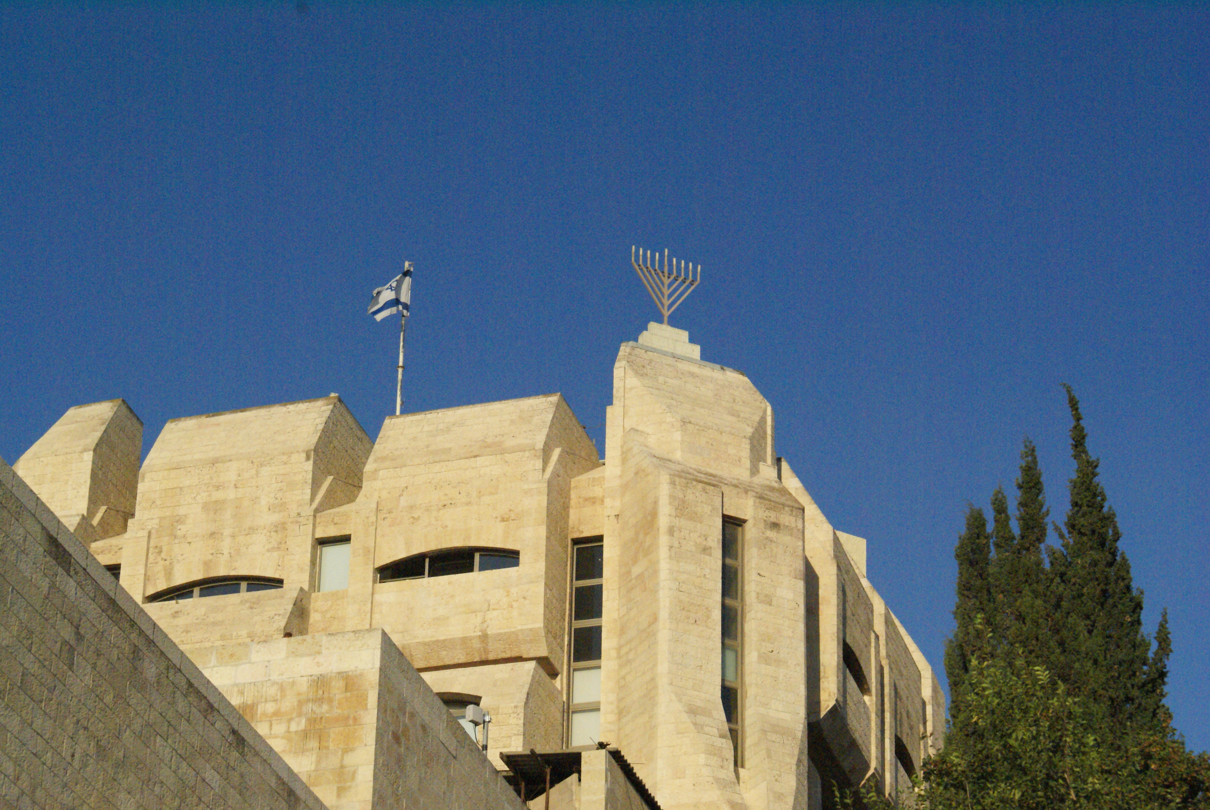 Yeshivat Hakotel in Jerusalem